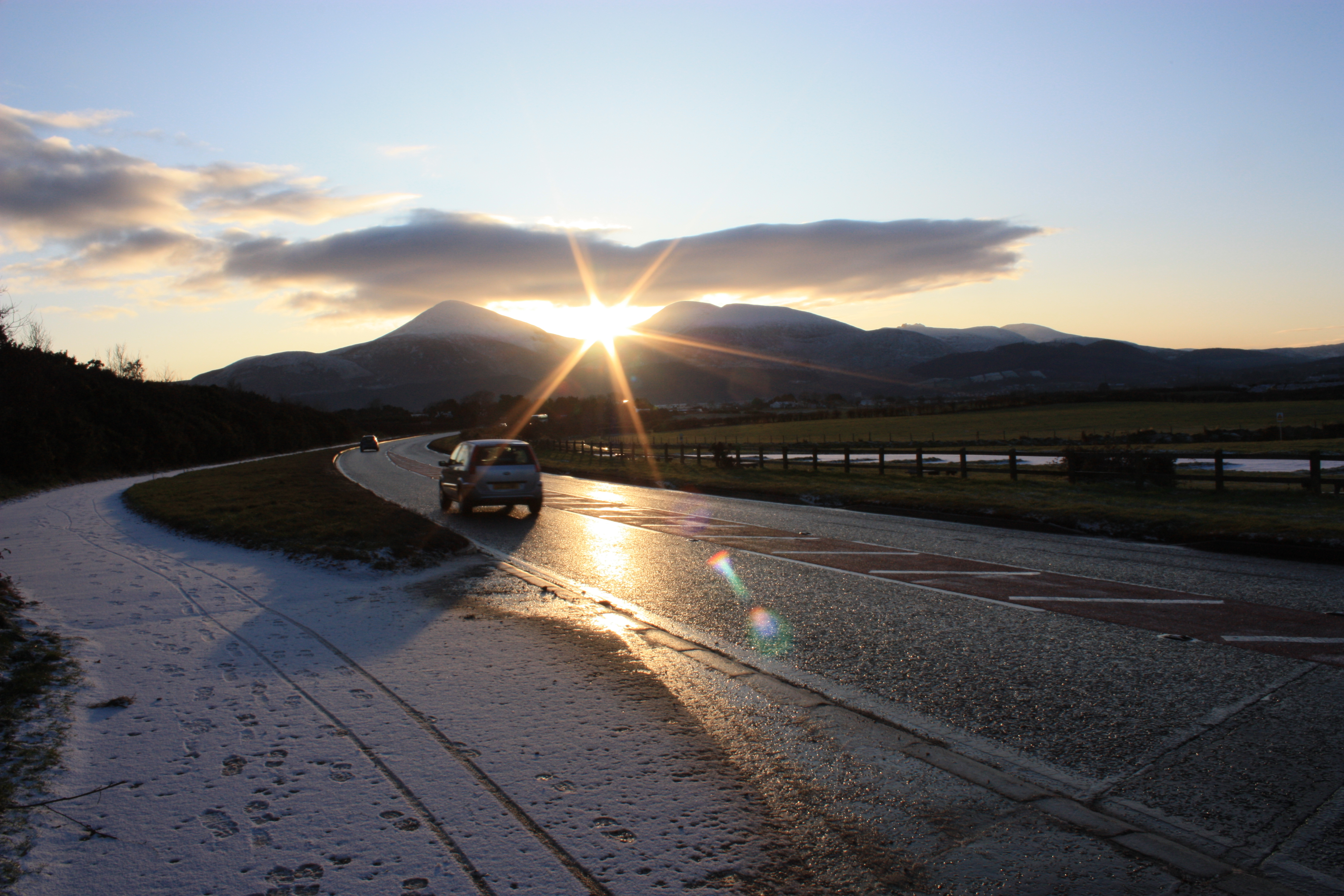 Dundrum Road, County Down, Northern Ireland, January 2010 (between Dundrum and Newcastle, opposite junction with Old Road, looking in Newcastle direction)